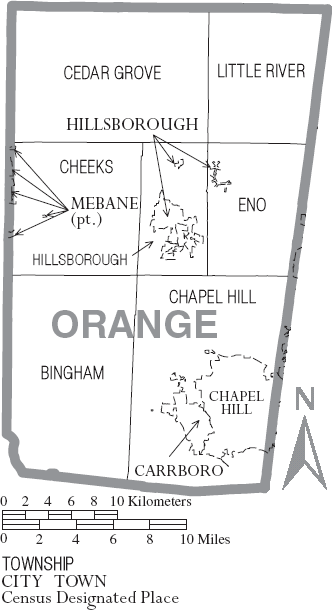 Map of Orange County, North Carolina, United States with township and municipal boundaries